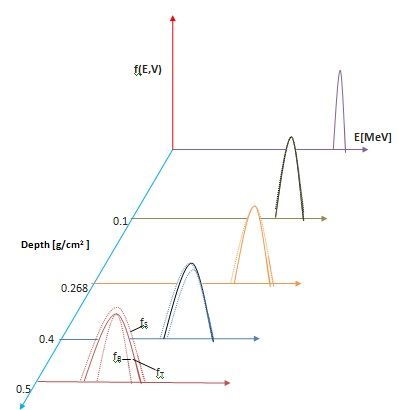 Energy Straggling